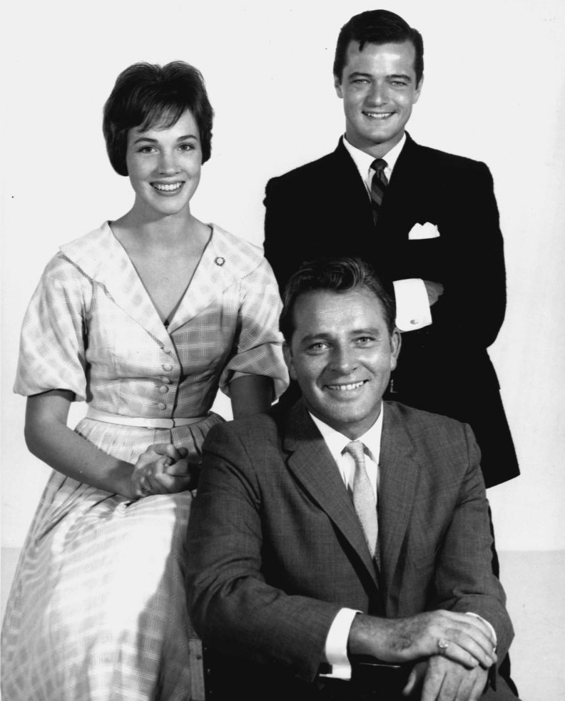 Photo of Julie Andrews, Robert Goulet and Richard Burton-the leading cast of the musical Camelot. Andrews played Guenevere, Goulet was Lancelot and Burton played Arthur.